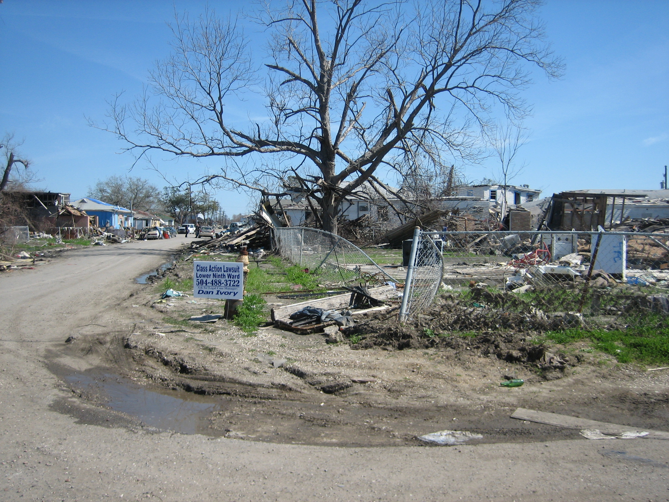 New Orleans after Hurricane Katrina: Lower 9th Ward devastated residential street with sign for class action law suit.